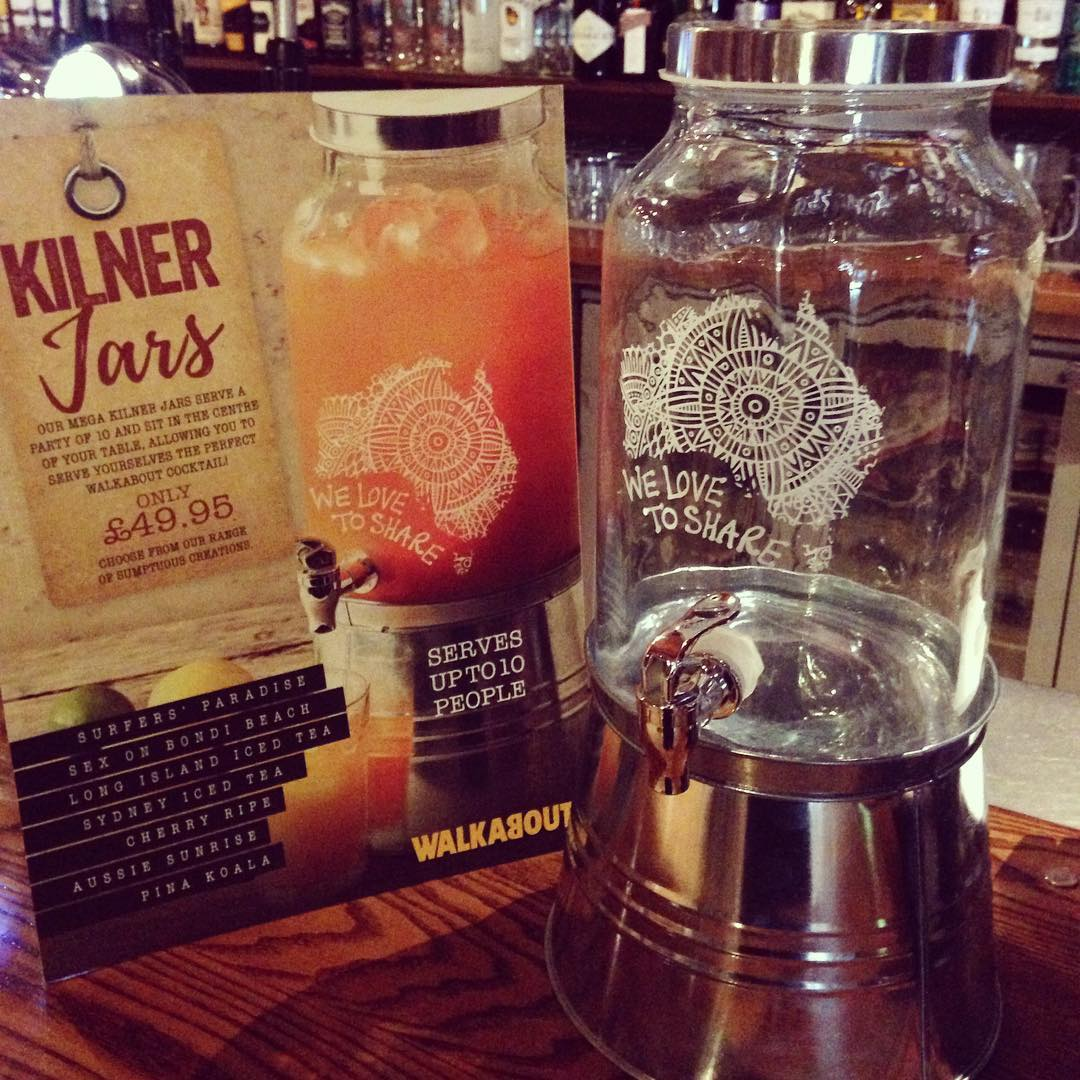 Walkabout Reading serving Kilner